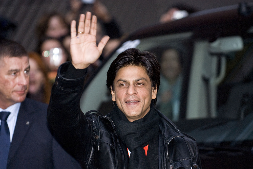 Indian actor Shahrukh Khan, arrival for press conference of "Om Shanti Om" at the Hyatt Hotel, Potsdamer Platz, Berlin